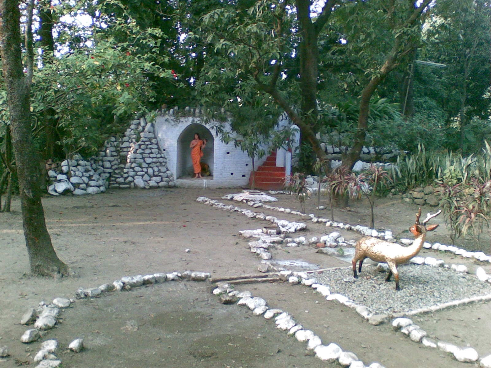 This is picture of Panchbati scene created in landscaping residence of Dr. Balbir Singh, he named a quarterly magazine Panchbati Sandesh after this.